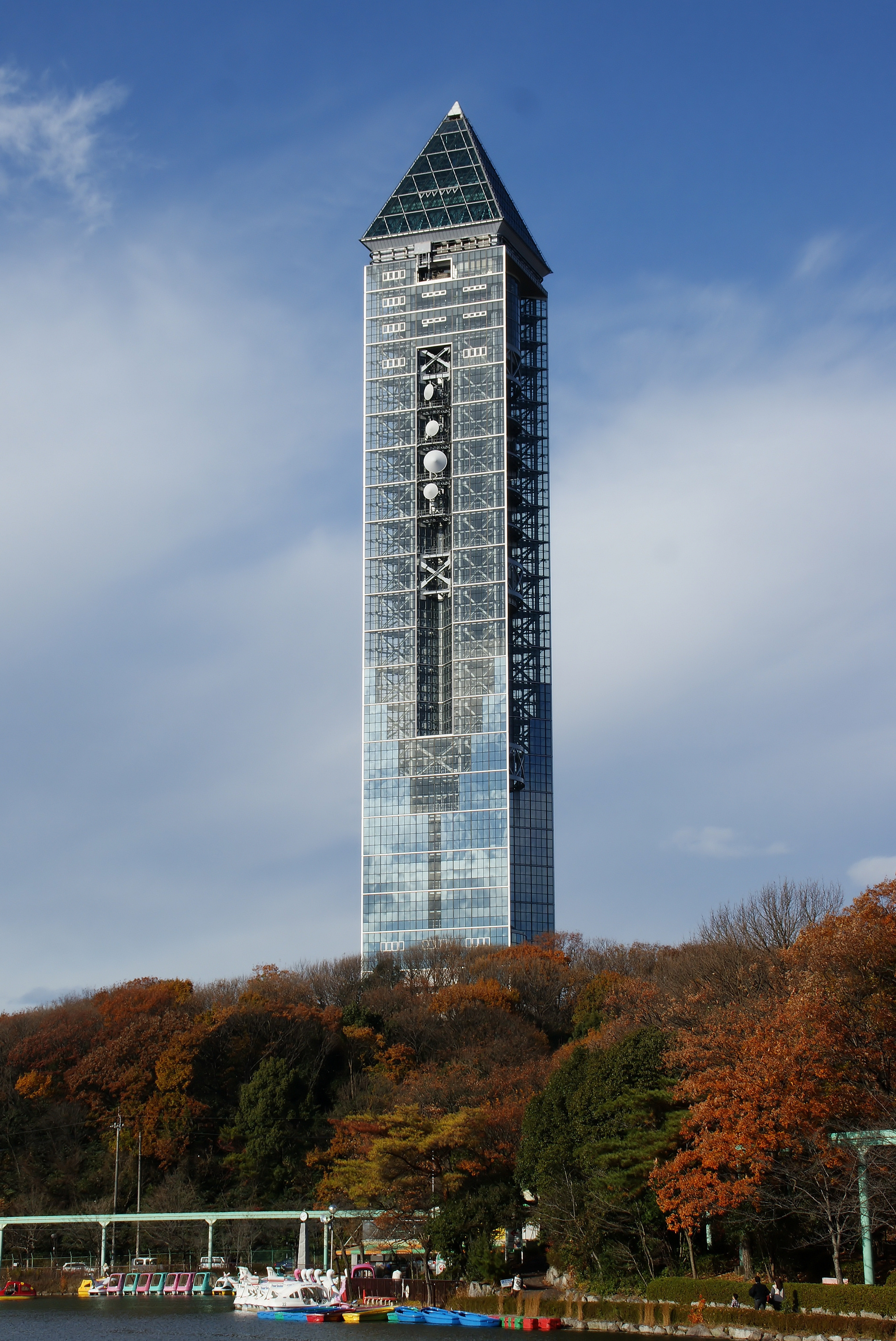 Higashiyama Sky Tower.(Chikusa Ward, Nagoya City, Aichi Prefecture, Japan)